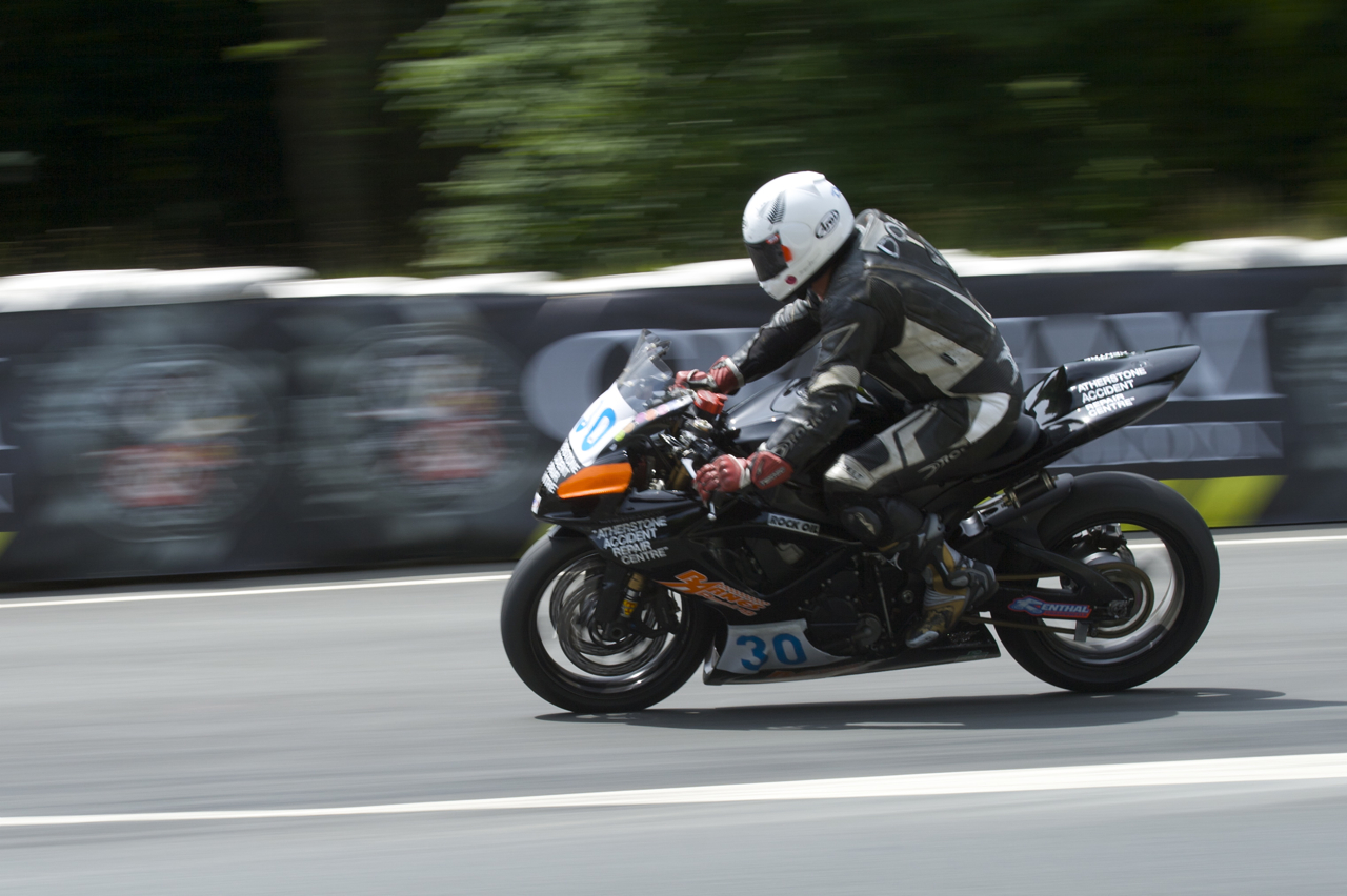 Paul Dobbs racing a 600 cc Suzuki[1] in the Isle of Man TT races in 2009, specifically the Relentless Supersport TT Race 1[2]